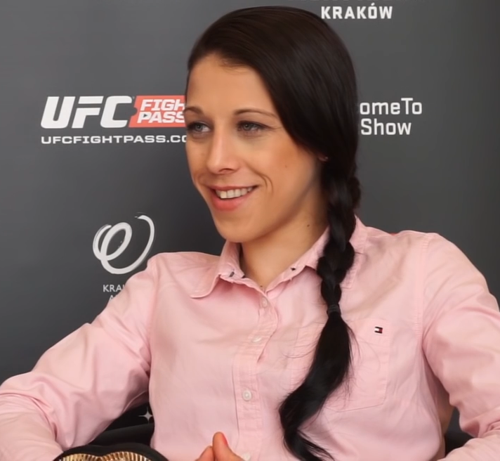 Joanna Jędrzejczyk being interviewed.